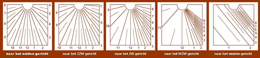 Vertical sundials declining from south to west / Own Work/ . By obsevation set for a dial located at 51° 20'N